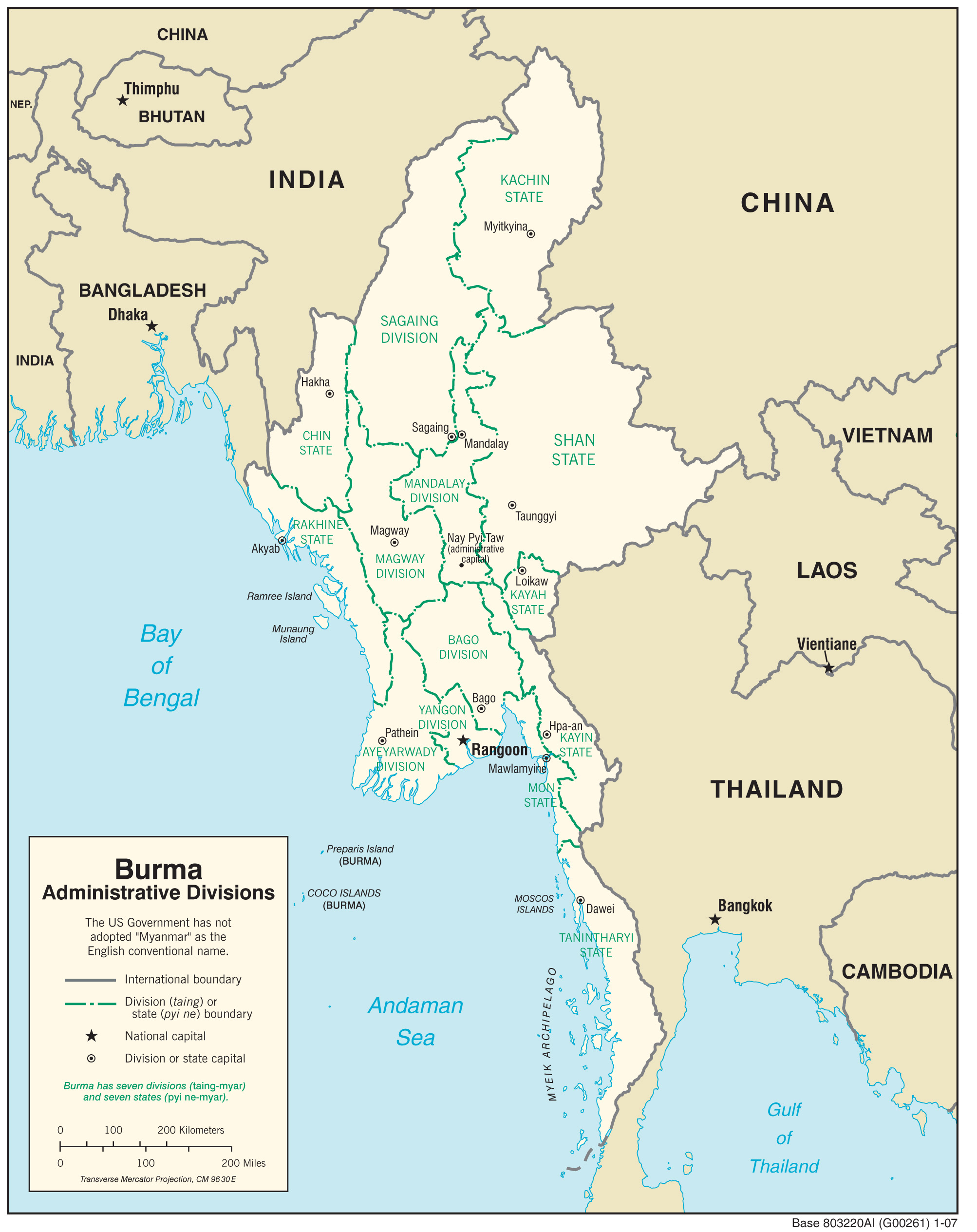 Map of administrative divisions of Myanmar, 2007.